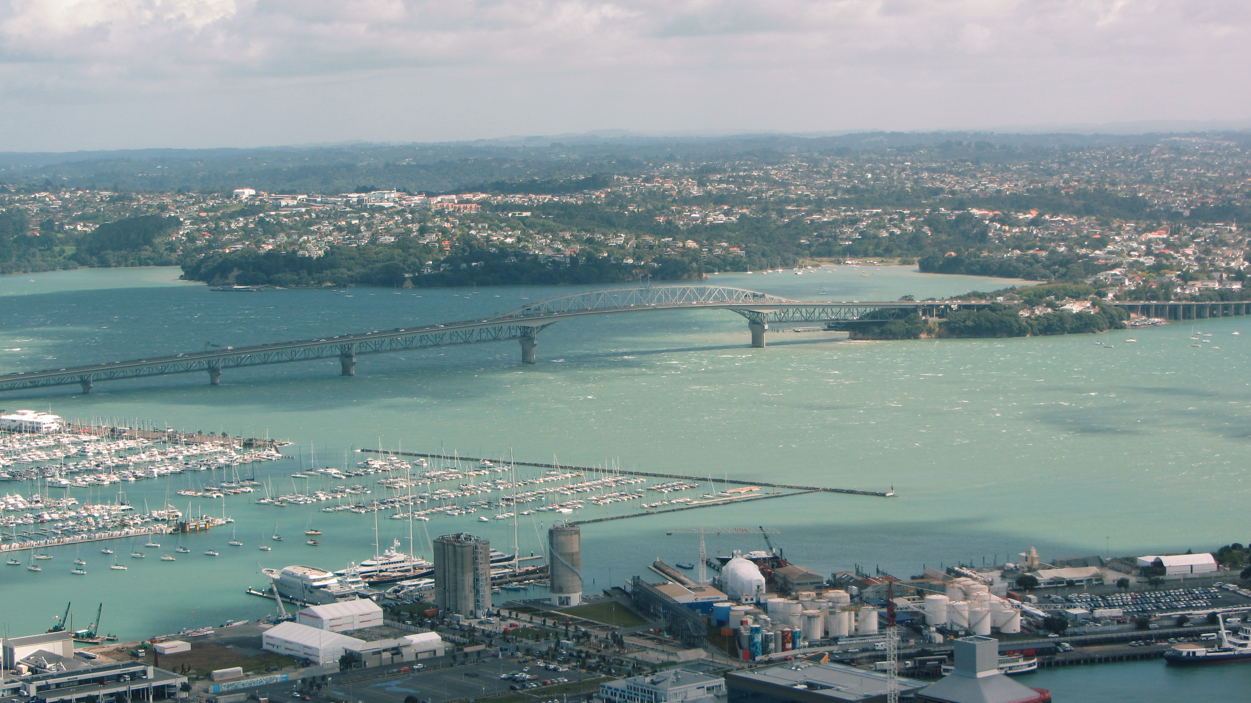 Auckland Harbour Bridge aerial view